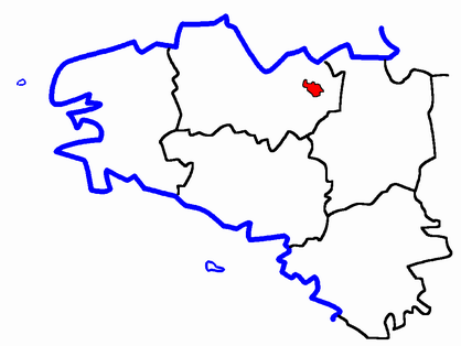 Description: Map for localisazion of cantons of Bretagne region in France Source: made by Hervé Tigier in april 2005 from another large map (published in 1990)